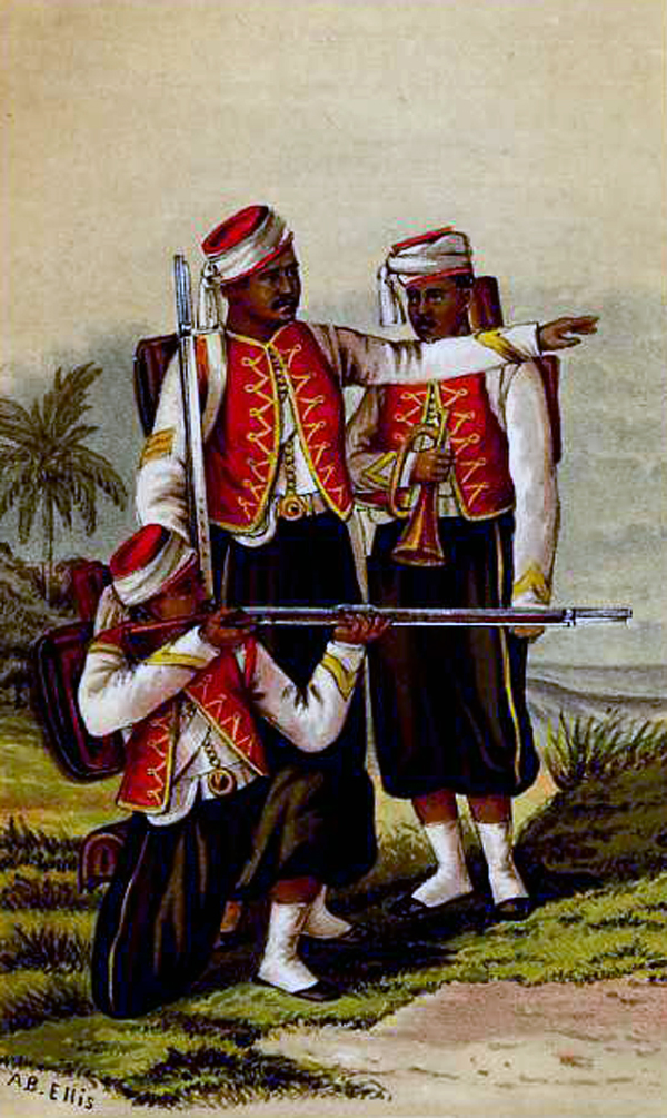 West India Regiment, 1874